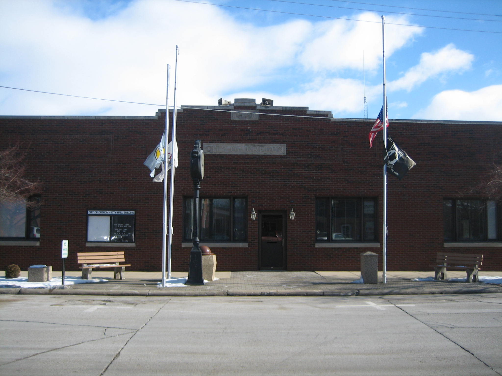 Oregon City Hall, 1920, 115-117 N. Third St., part of the Oregon Commercial Historic District, Oregon, Illinois. National Register of Historic Places.